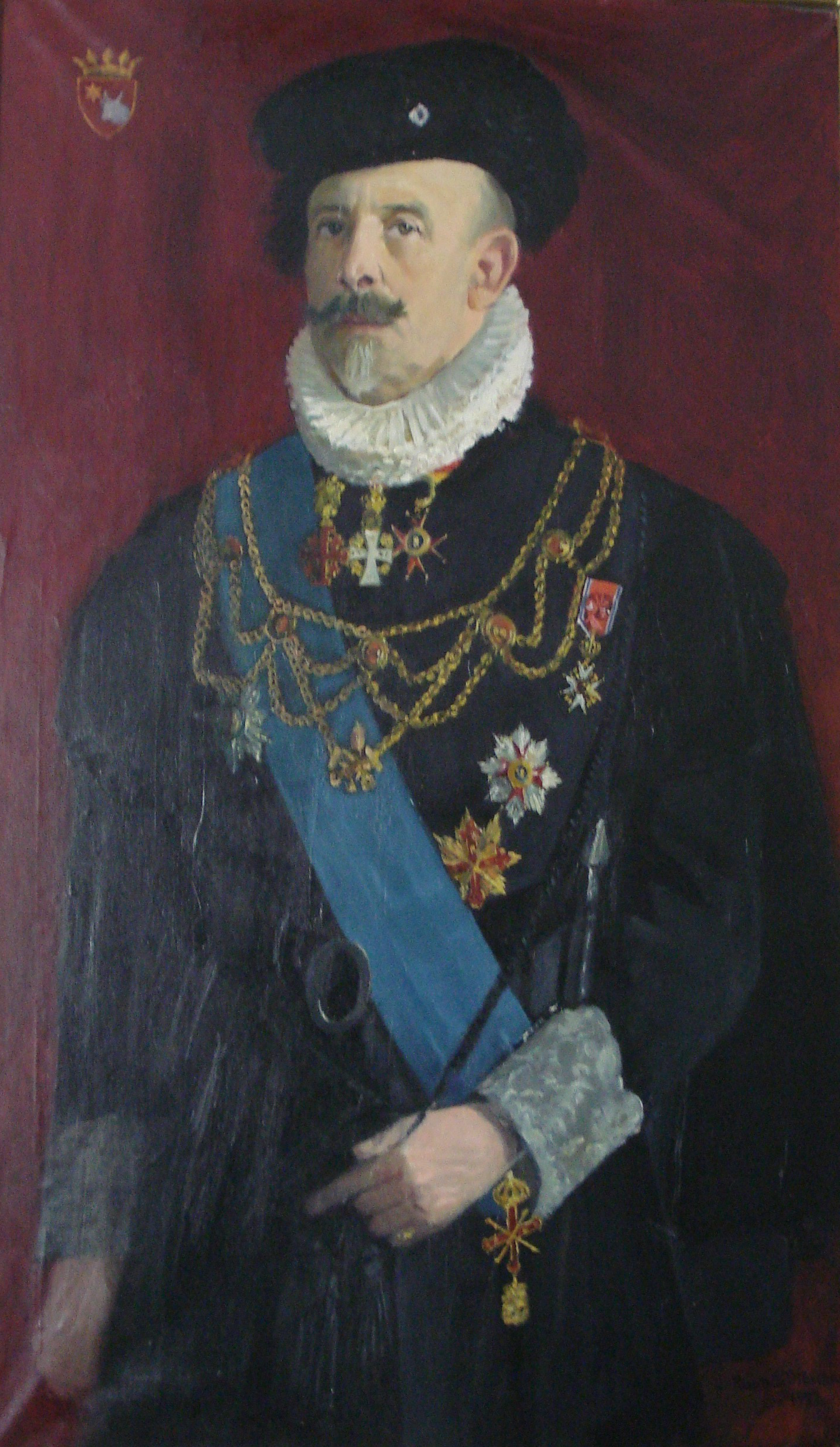 Christopher de Paus (1862), wearing a papal chamberlain's dress, in Spanish Renaissance style